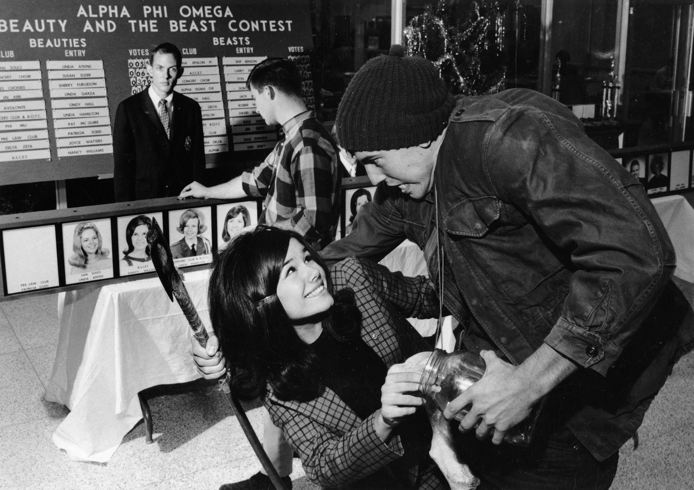 University of Texas at Arlington, Alpha Phi Omega "Beauty and the Beast" contest; Linda Garza, others not identified.